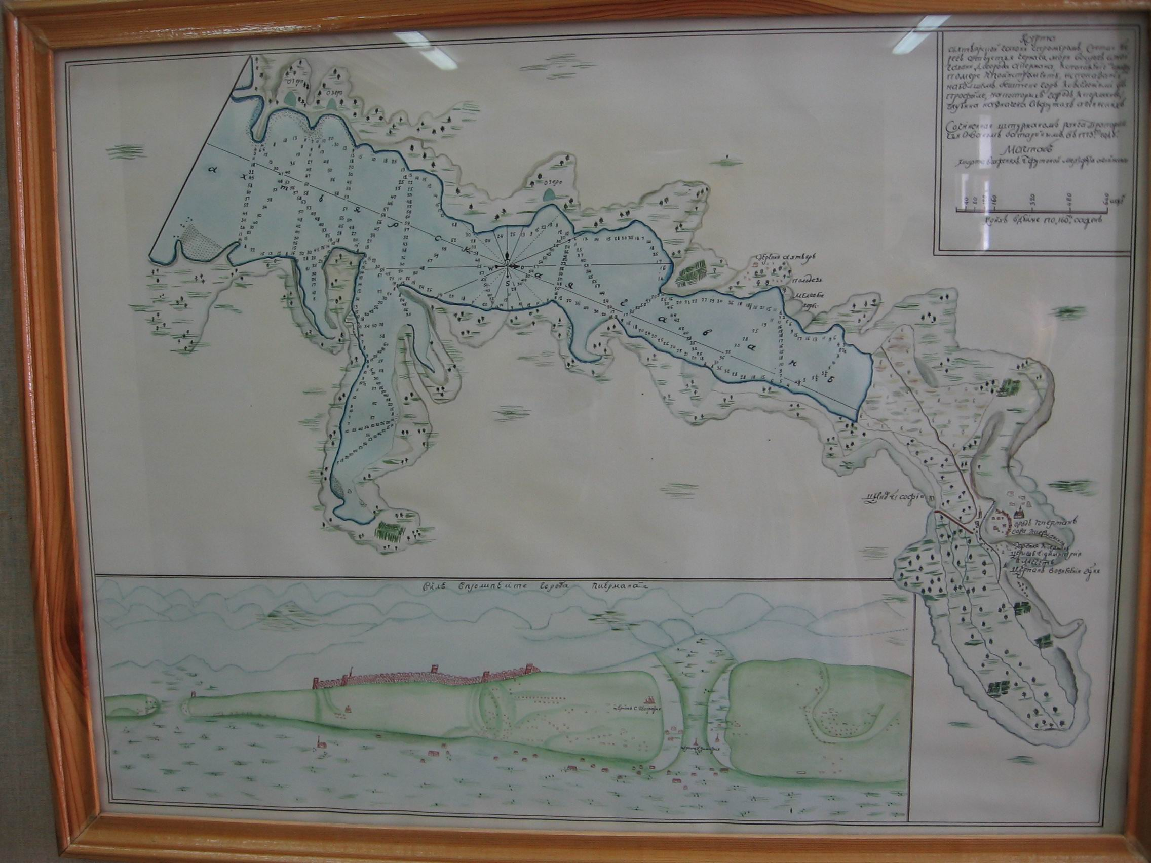 A copy of the first map of the Bay of Sevastopol (then Akhtiar) at the Russian Black Sea Fleet Museum. The original map was created by a Russian navigator Ivan Baturin and his team in 1773.